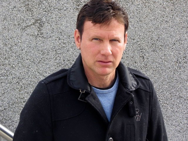 Corey Hart, photographed by Julie Masse Hart, Barcelona, Spain February 2012.